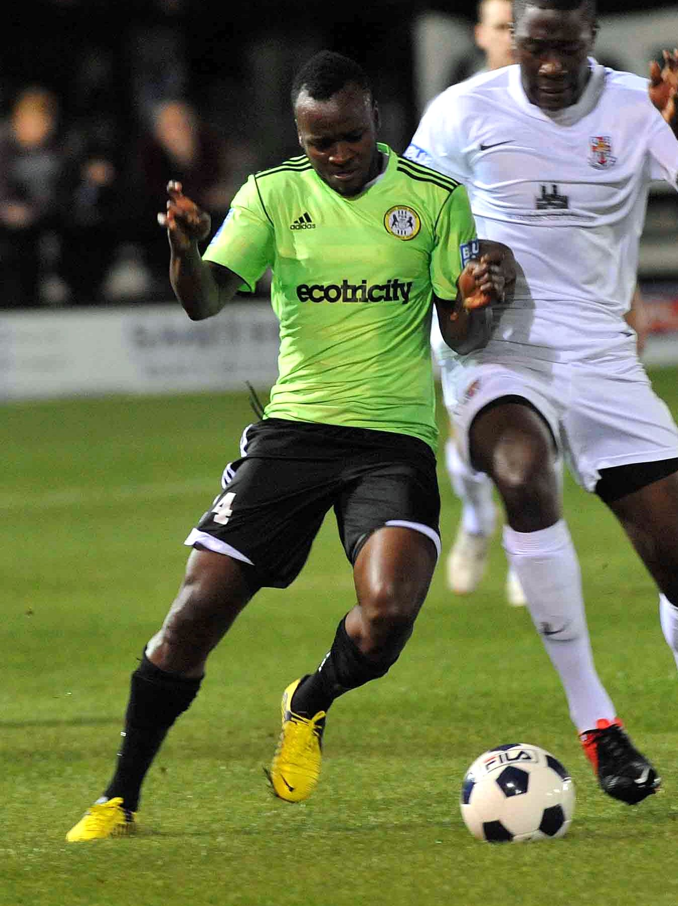 Al Bangura playing for Forest Green Rovers during 2012/13 season.